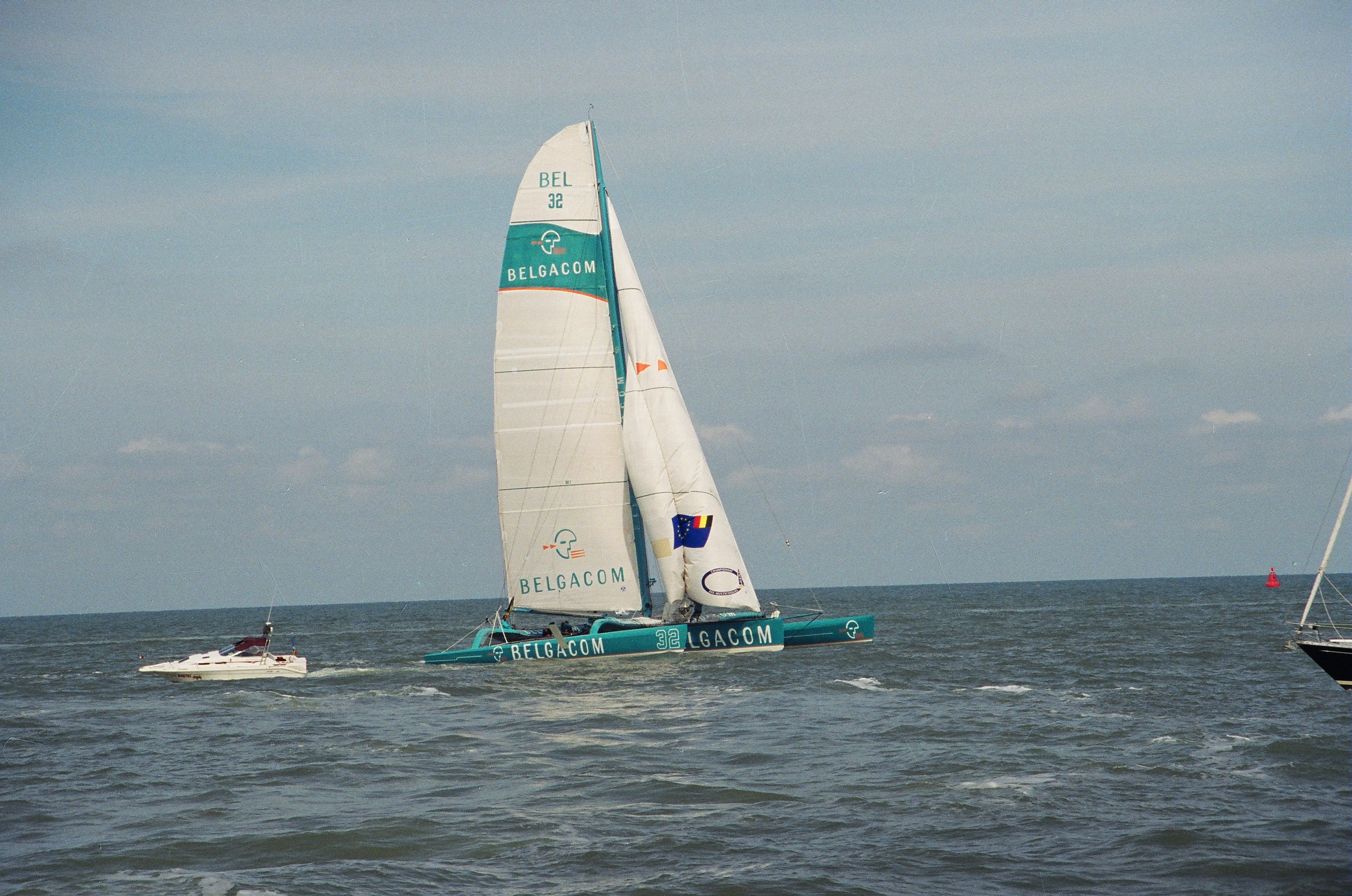 Trimaran Belgacom of Jean-Luc Nélias, seen during or close to the Tall Ships' Races 2003. This trimaran is now known under the name Gitana 11.